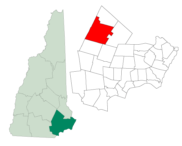 Map of a municipality in Rockingham County, New Hampshire